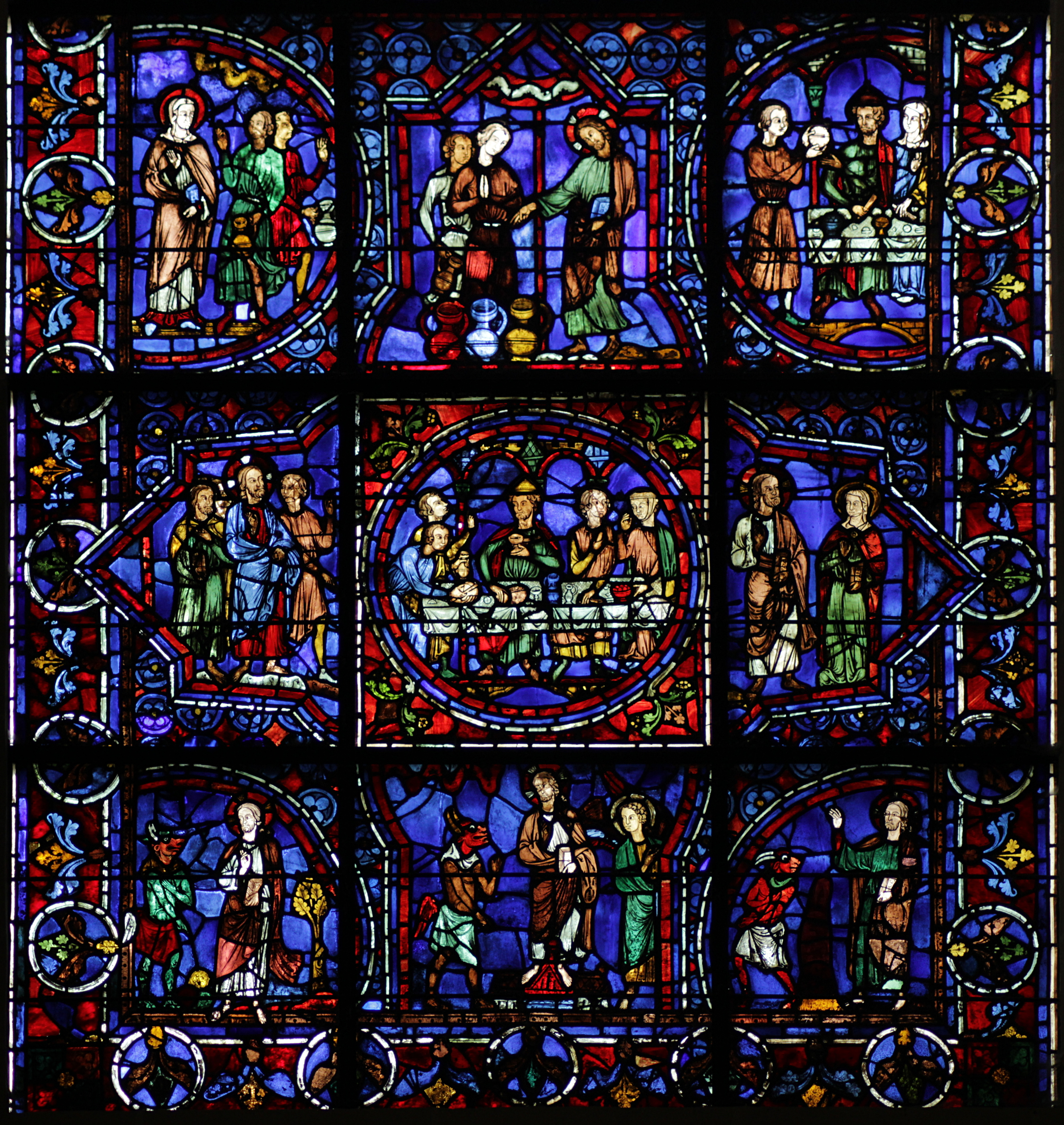 Chartres Cathedral - Notre Dame de la Belle Verrière - Temptation of Christ (bottom) and Wedding at Cana (middle and top).